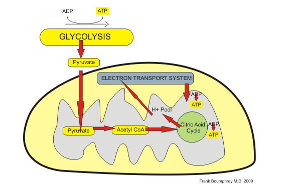 Aerobic processing in Mitochondria in Citric Acid Cycle pathways